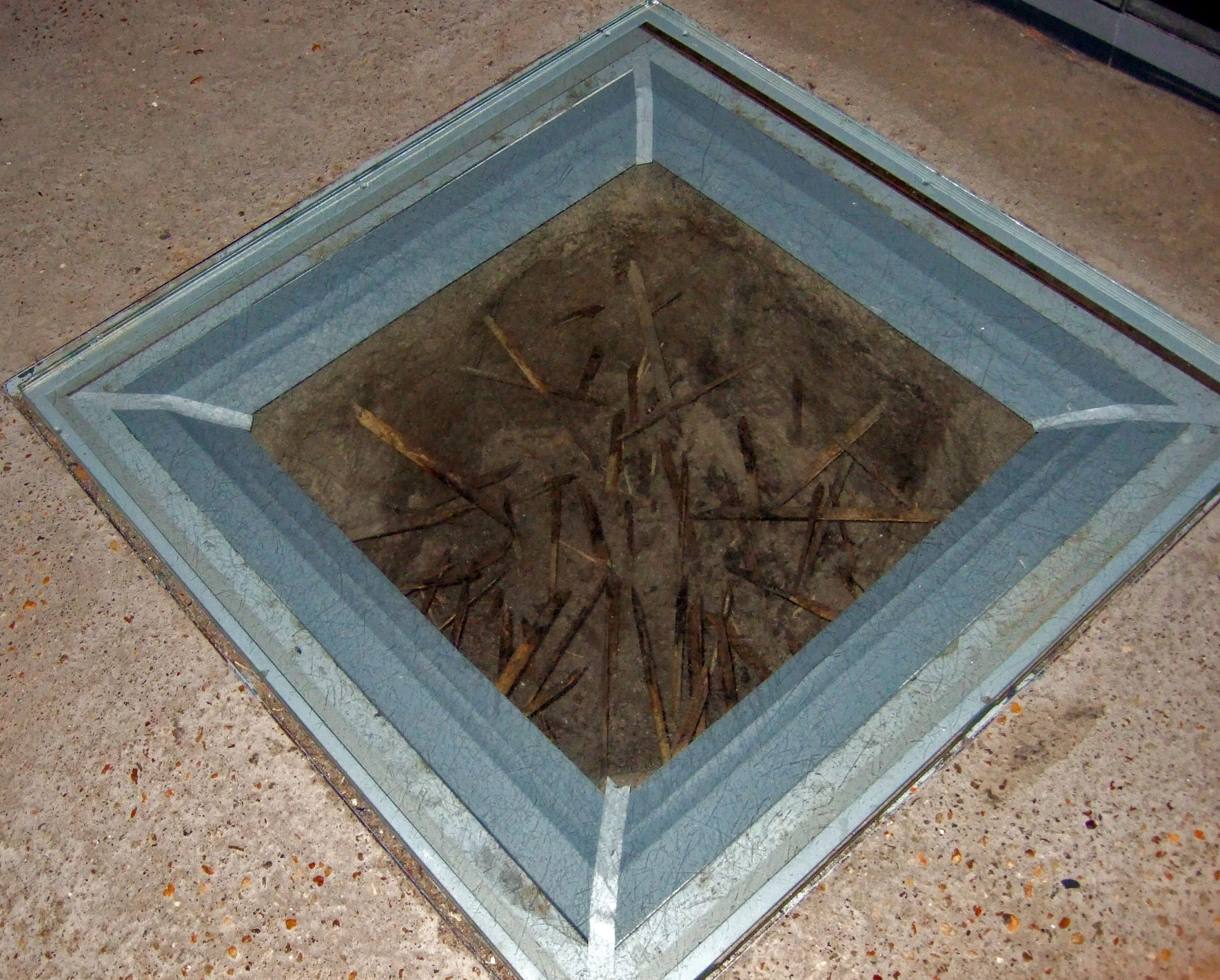 Punji stake pit exhibit, from the National Museum of the Marine Corps.